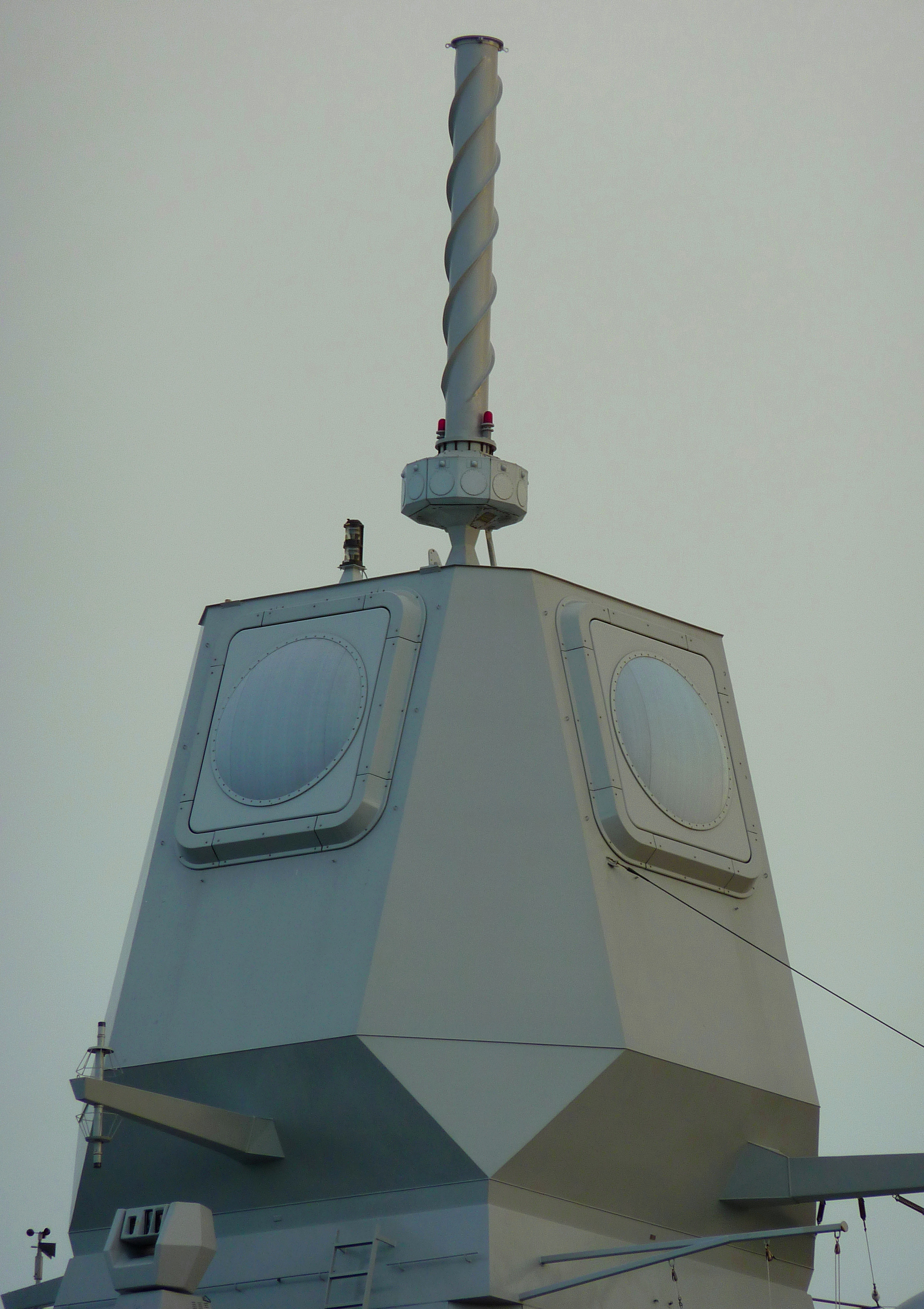 APAR (Active Phased Array Radar) of Thales Nederland on the Dutch Navy De Zeven Provinciën class frigate "Tromp", F-803.